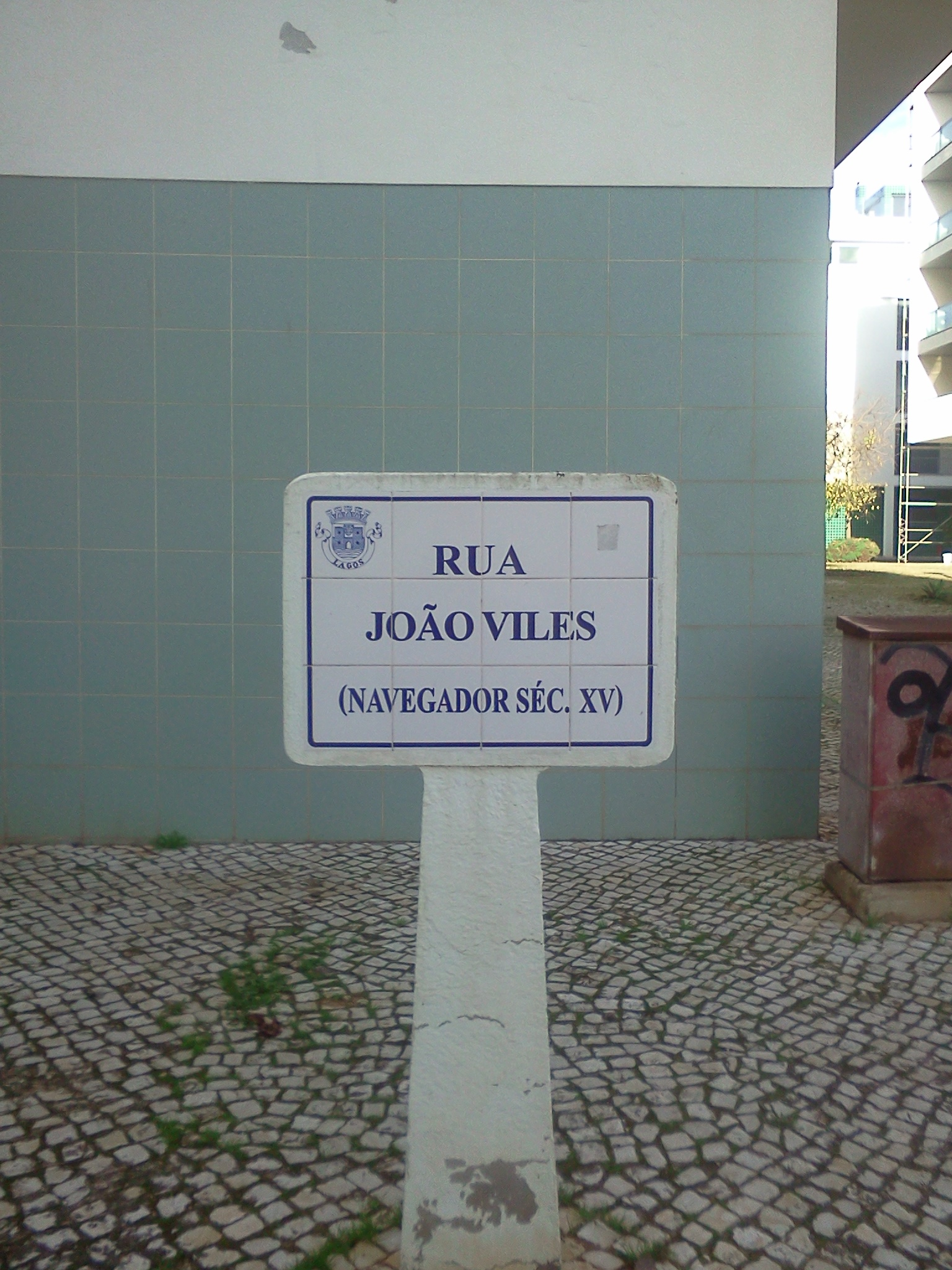 Street sign of Rua João Viles, in the city of Lagos, in southern Portugal.